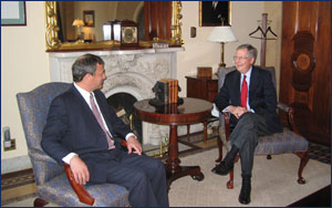 Capitol Hill—Senator Mitch McConnell meets with Supreme Court nominee Judge John Roberts. (July 22, 2005)